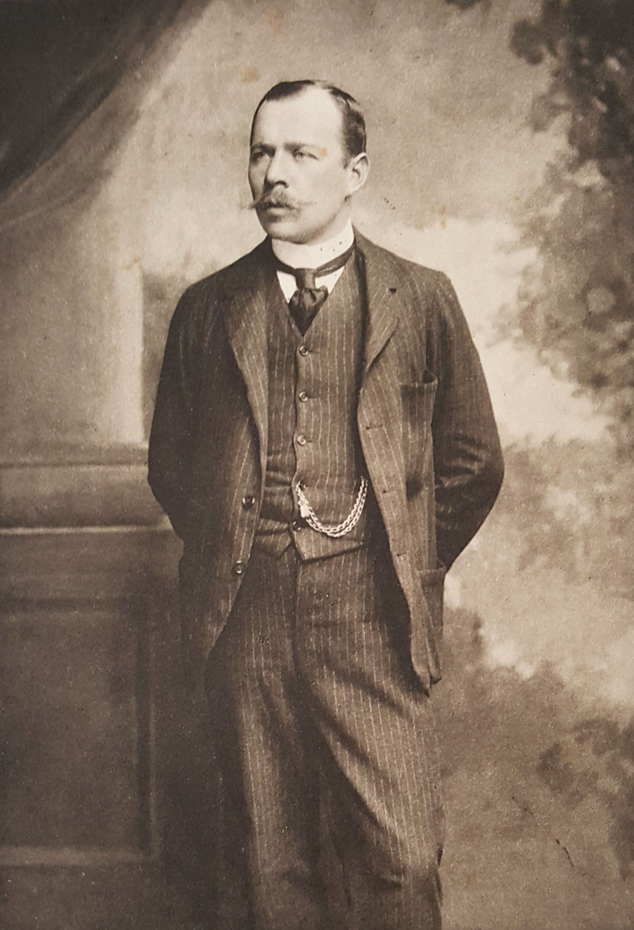 Carsten Borchgrevink, ca.1901, photograph by J Thompson, London, collotype print reproduced by Swan Electric Company, from First on the Antarctic continent: Being an account of the British Antarctic expedition, 1898-1900 by C.E. Borchgrevink. London: George Newnes., State Library of New South Wales, RB/DS999.8A/66